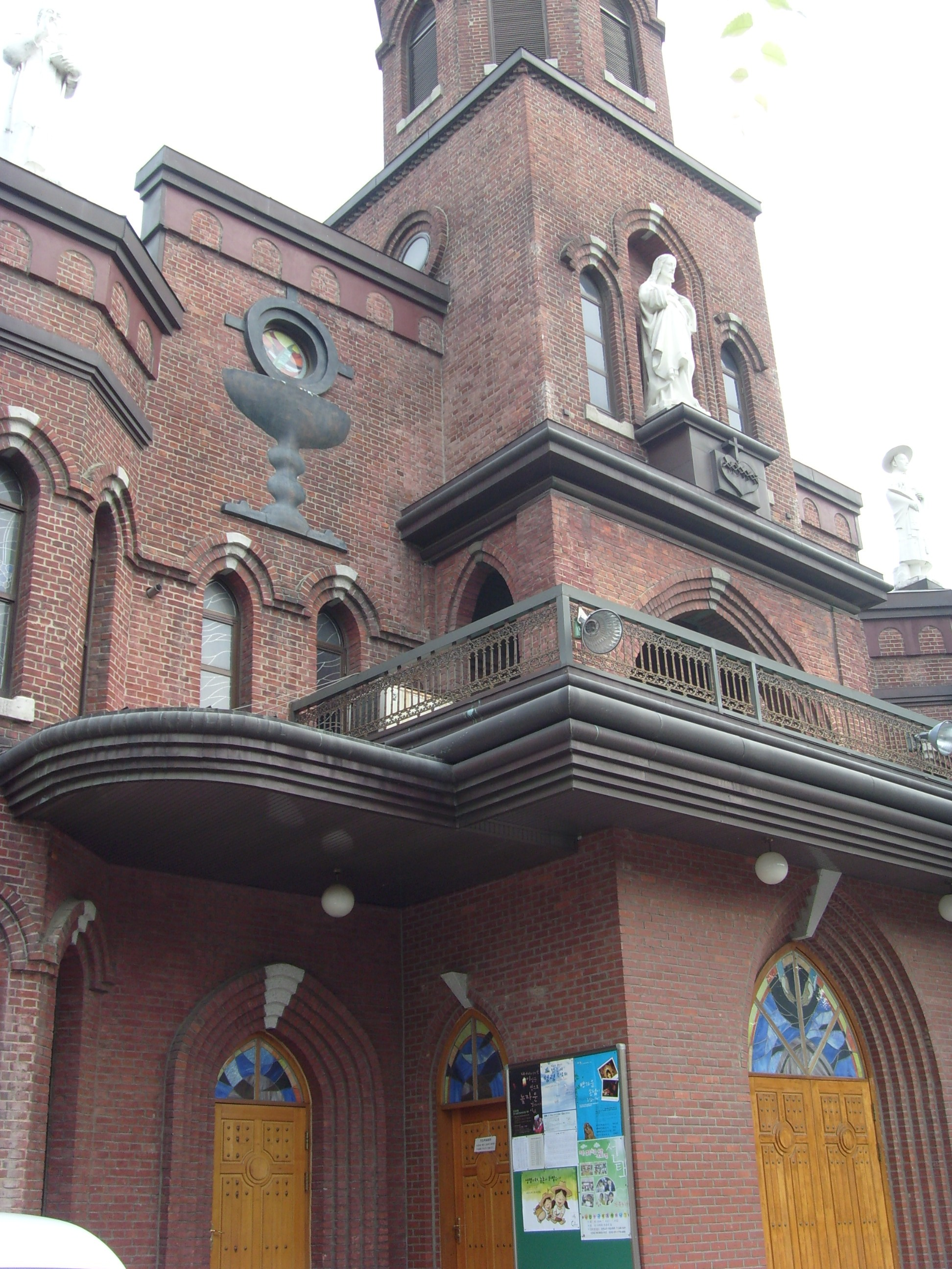 Catholic cathedral of Diocese of Jeonju.